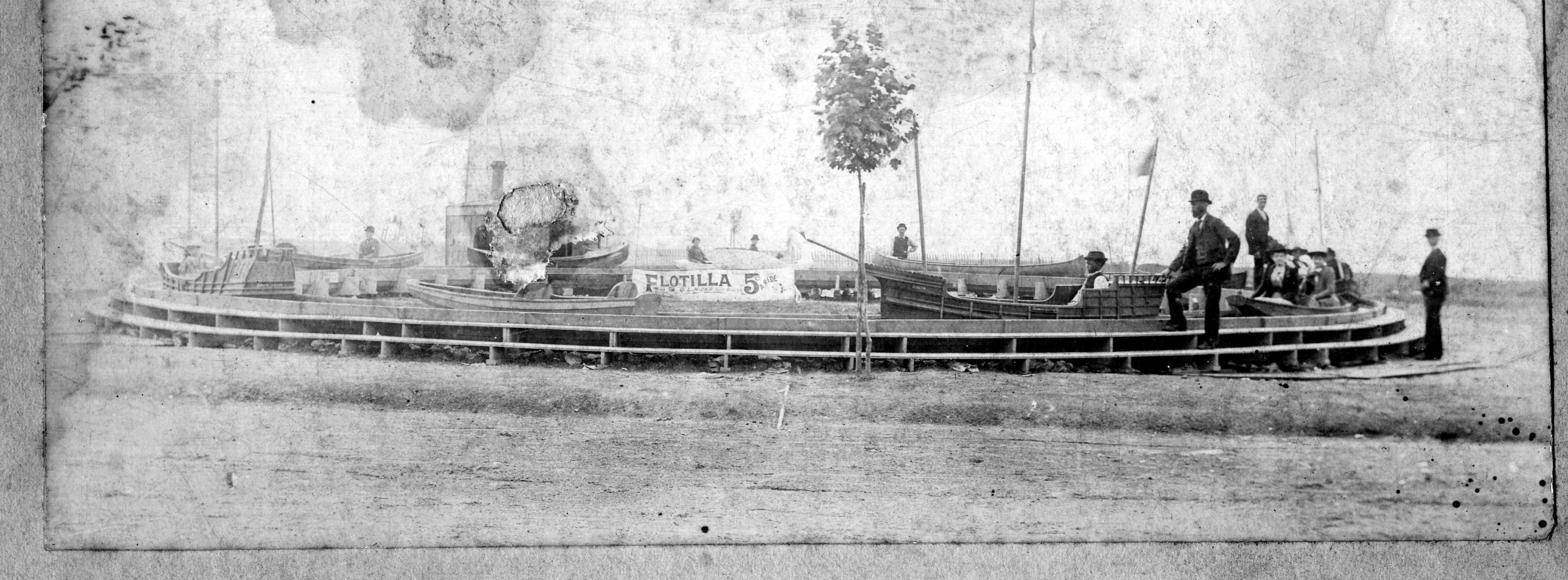 O L Hicks of Humber Bay, Ontario invented this carousal known as "The Flotilla". Boats were inspired by replicas of Columbus's ships travelling to 1893 Chicago World's Fair. Name Pinta is visible on bow of right hand boat. Location is Munro Park, Toronto which was third site where this attraction was installed.